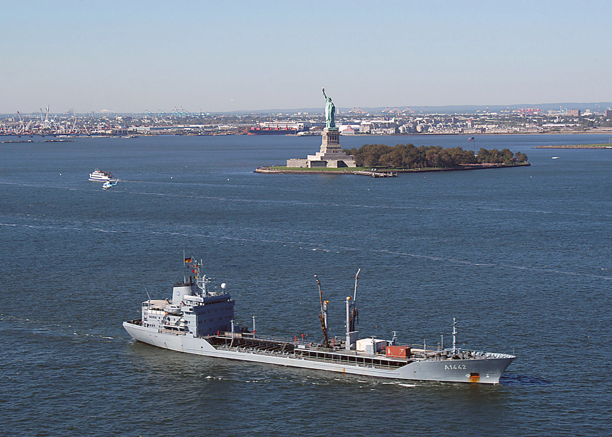 The German Navy, Replenishment Tanker (Type 704) Spessart (A 1442) sails past the Statue of Liberty as part of a Parade of Ships during a port visit to New York City, during the North Atlantic Treaty Organization (NATO) Exercise, Standing Naval Force Atlantic (SNFL). The SNFL is a squadron of eight to ten destroyers and frigates from different nations in the NATO organization.